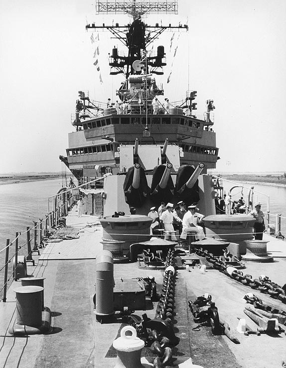 View on the foredeck of the U.S. Navy guided missile cruiser USS Little Rock (CLG-4) as she was steaming in the Suez Canal, en route to Port Said for ceremonies reopening the canal, 5 June 1975.